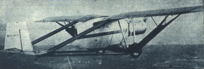 Bellanca TES Tandem (X/NR855E) with Pratt & Whitney R-1340 Wasp engines in flight.